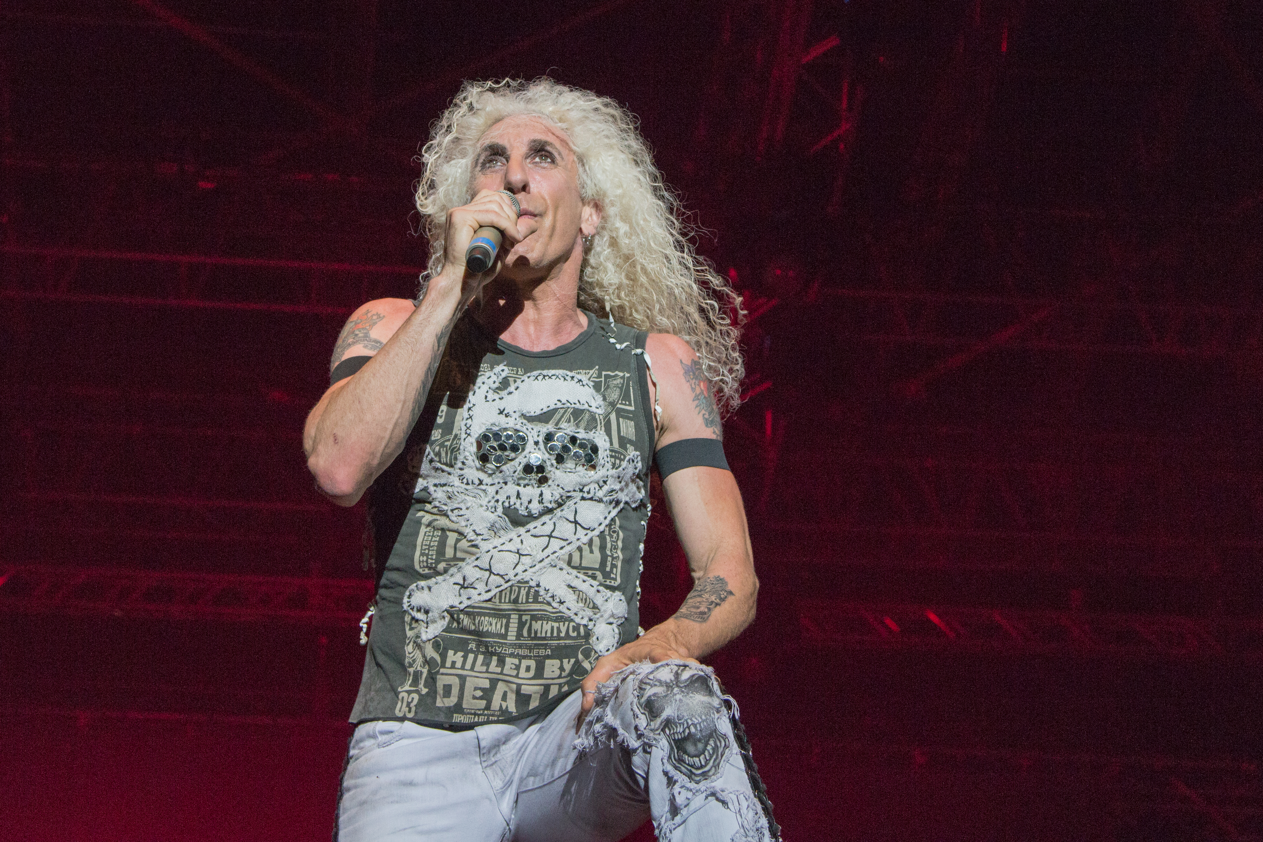 Daniel „Dee“ Snider from Twisted Sister at the See-Rock Festival 2014